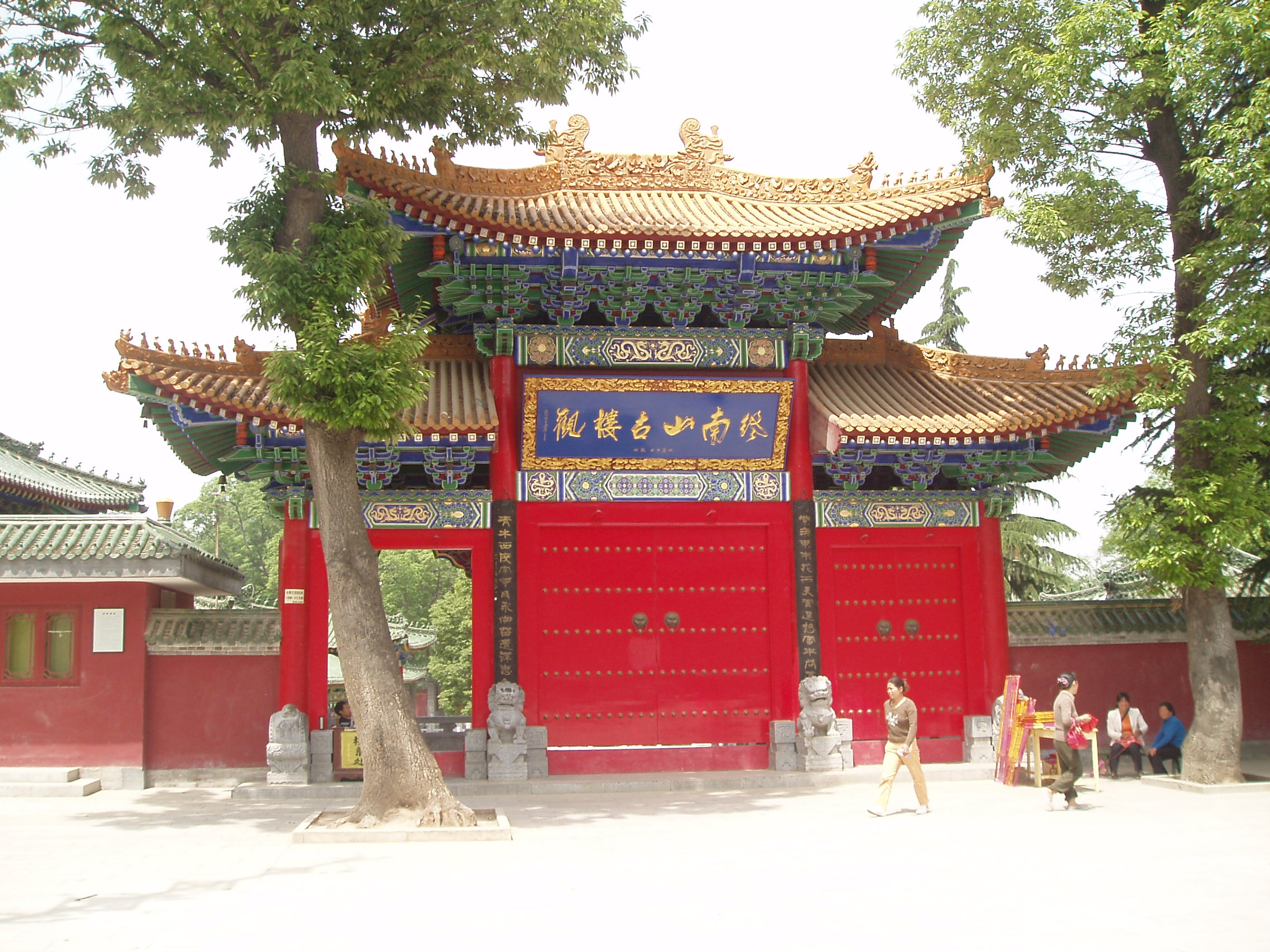 This is the main gate to the Louguan temple complex on Zhongshan.